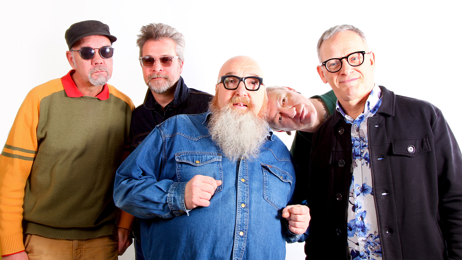 Portrait of Boots for Dancing, Edinburgh band